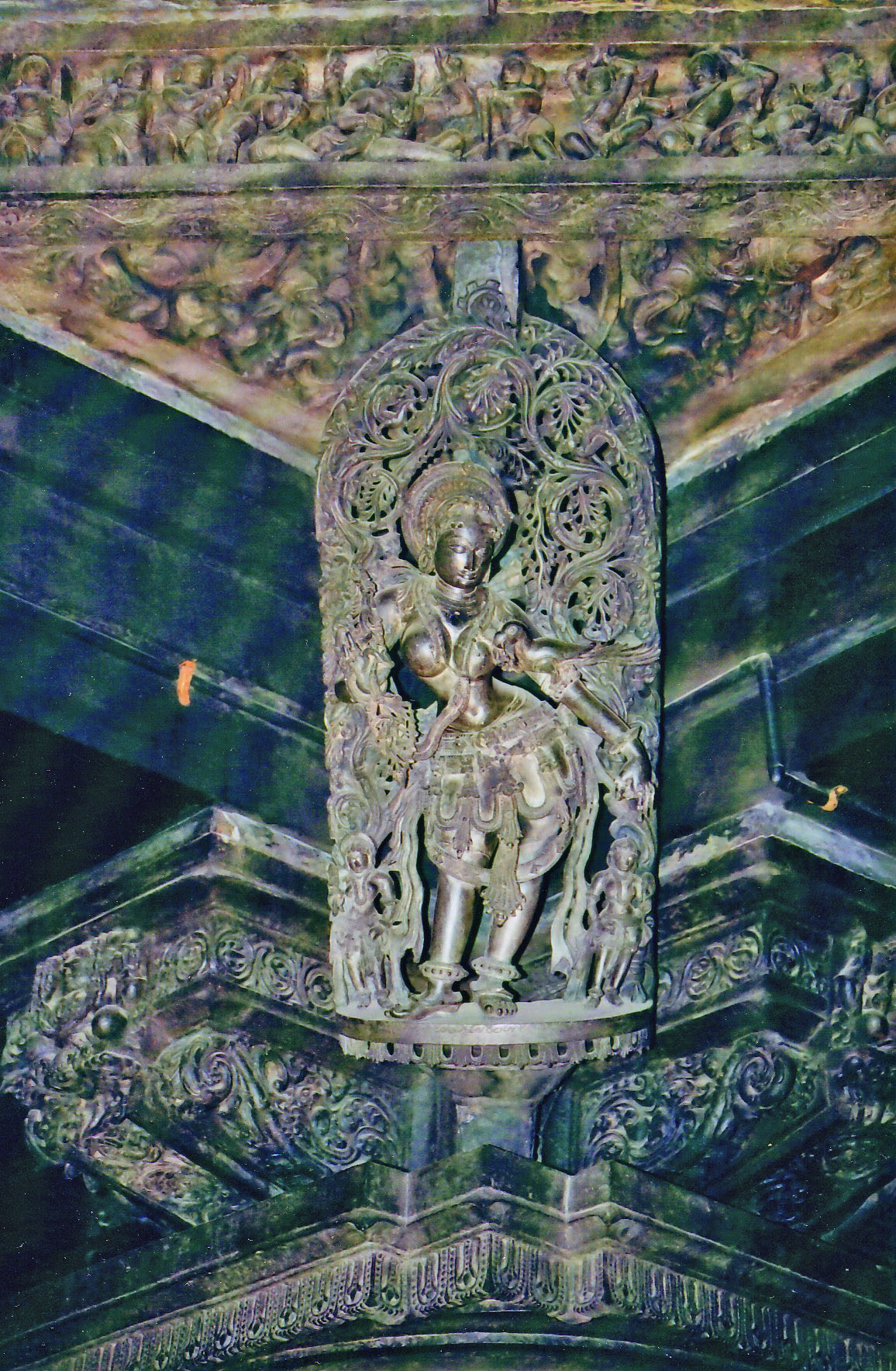 Photograph taken by me at Chennakesava Temple, Belur, Karnataka state, India in June 2006 - Dineshkannambadi